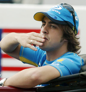 Fernando Alonso (Renault) kisses to the fans at the 2006 Malaysian Grand Prix